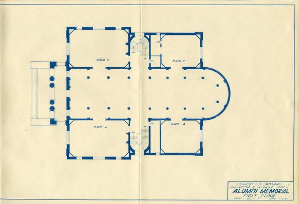 Architectural drawing, Alumni Memorial Hall first floor, 7/25/27